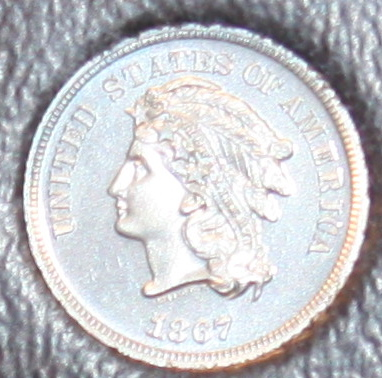 Pattern coin by James B. Longacre when the Mint was considering replacing the Shield nickel in 1867. From the collection of the Money Museum of the American Numismatic Association, Colorado Springs, CO